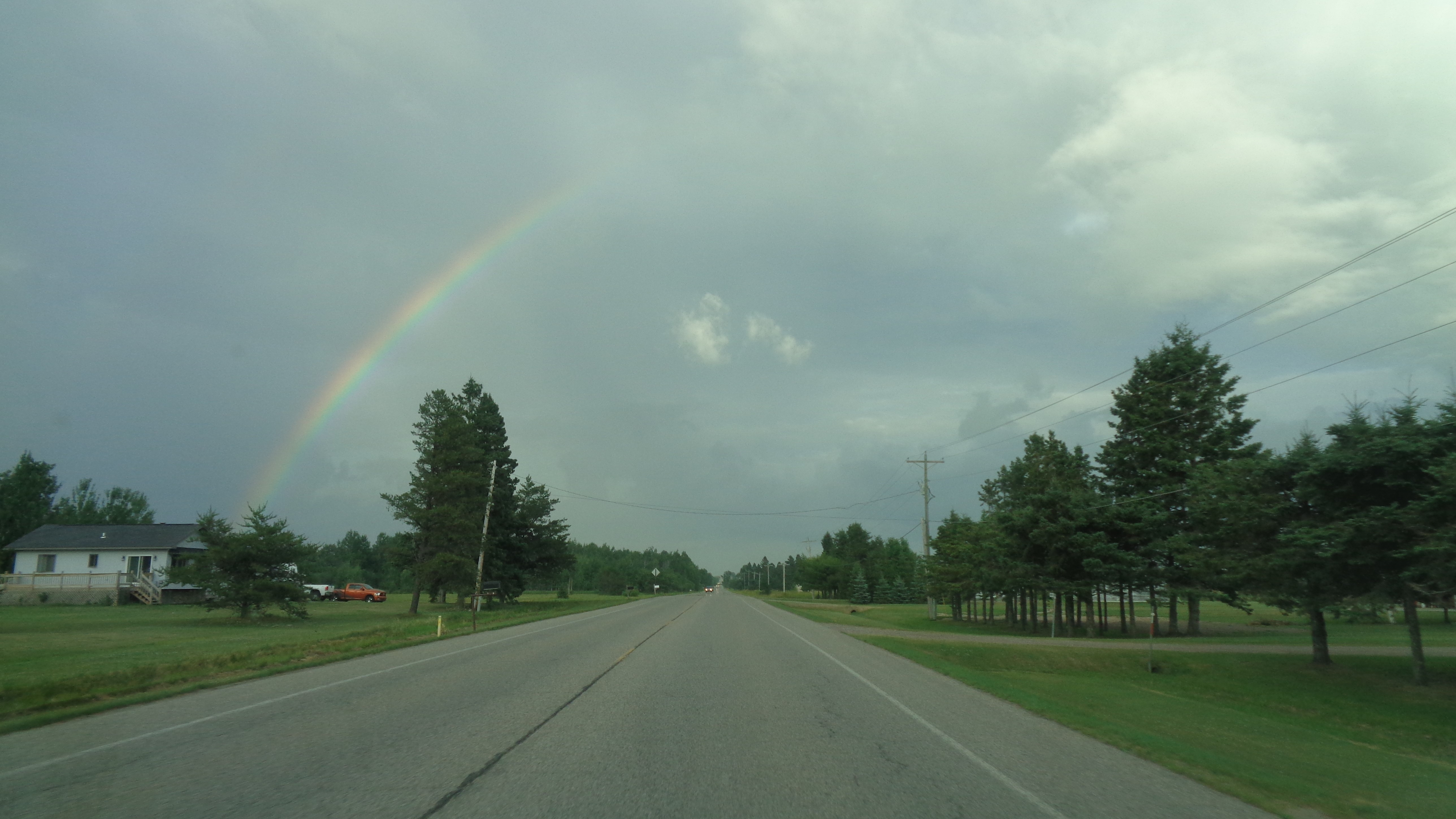 Depicted place: Dafter Township